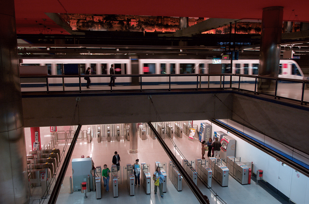 Metro at Nuevos Ministerios This photograph can be used for publications, including this copyright statement: “©PromoMadrid, author Max Alexander”. Esta fotografía puede usarse en publicaciones, incluyendo la declaración “©PromoMadrid, autor Max Alexander”.